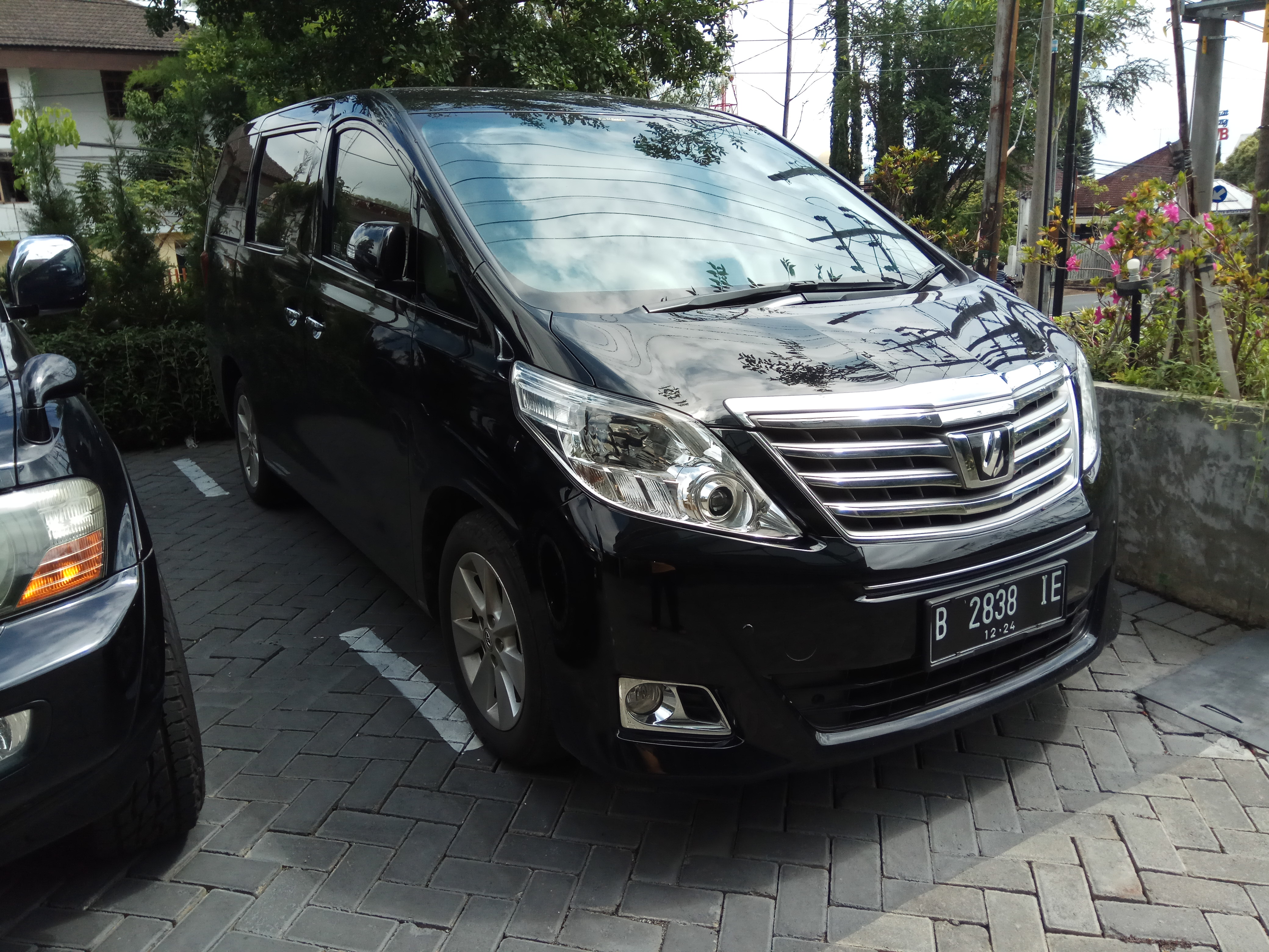 2014 Toyota Alphard (AH20 facelift) photographed in Batu City, Malang District, East Java, Indonesia.